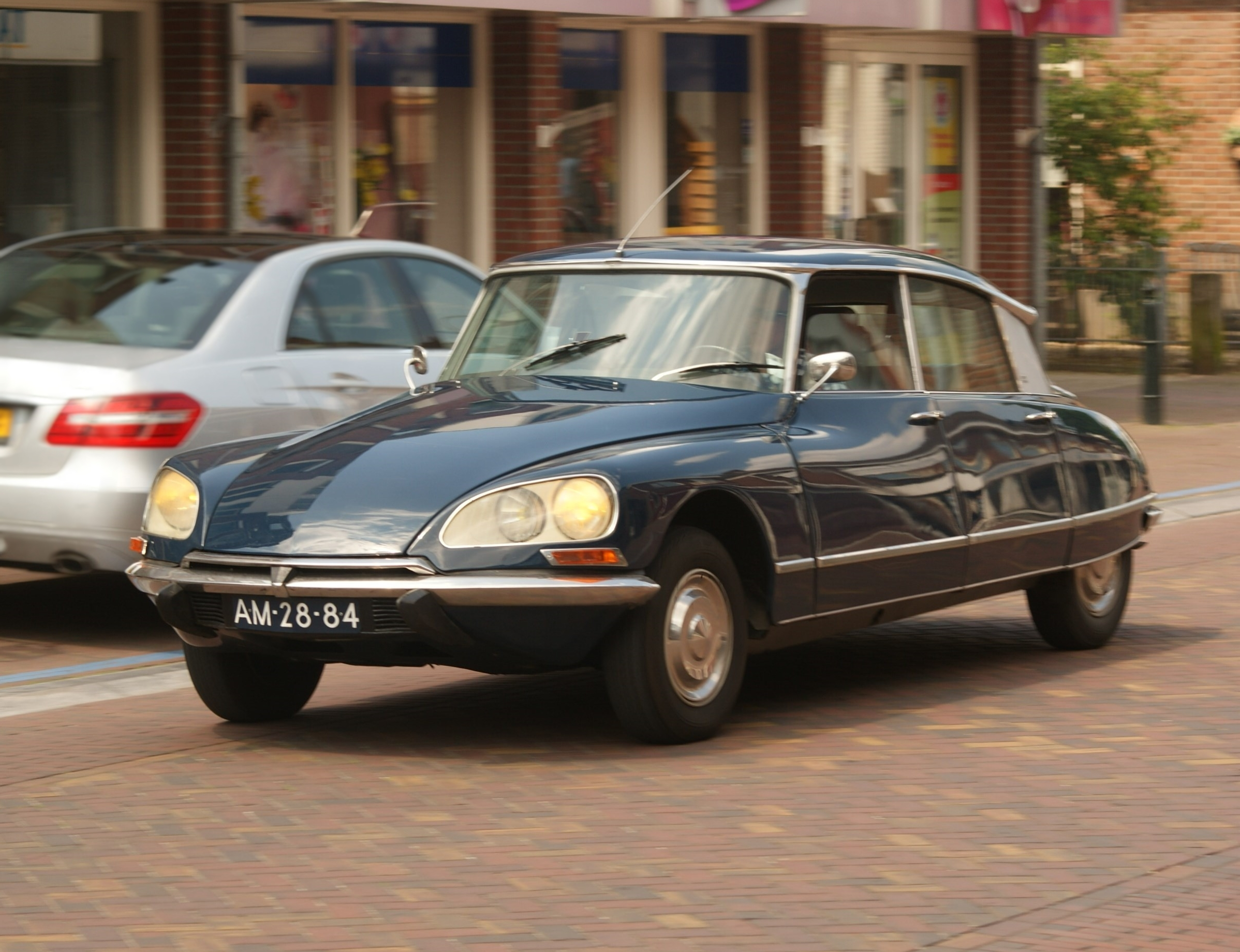 AM-28-84 Tour Unlimited Rally 2014